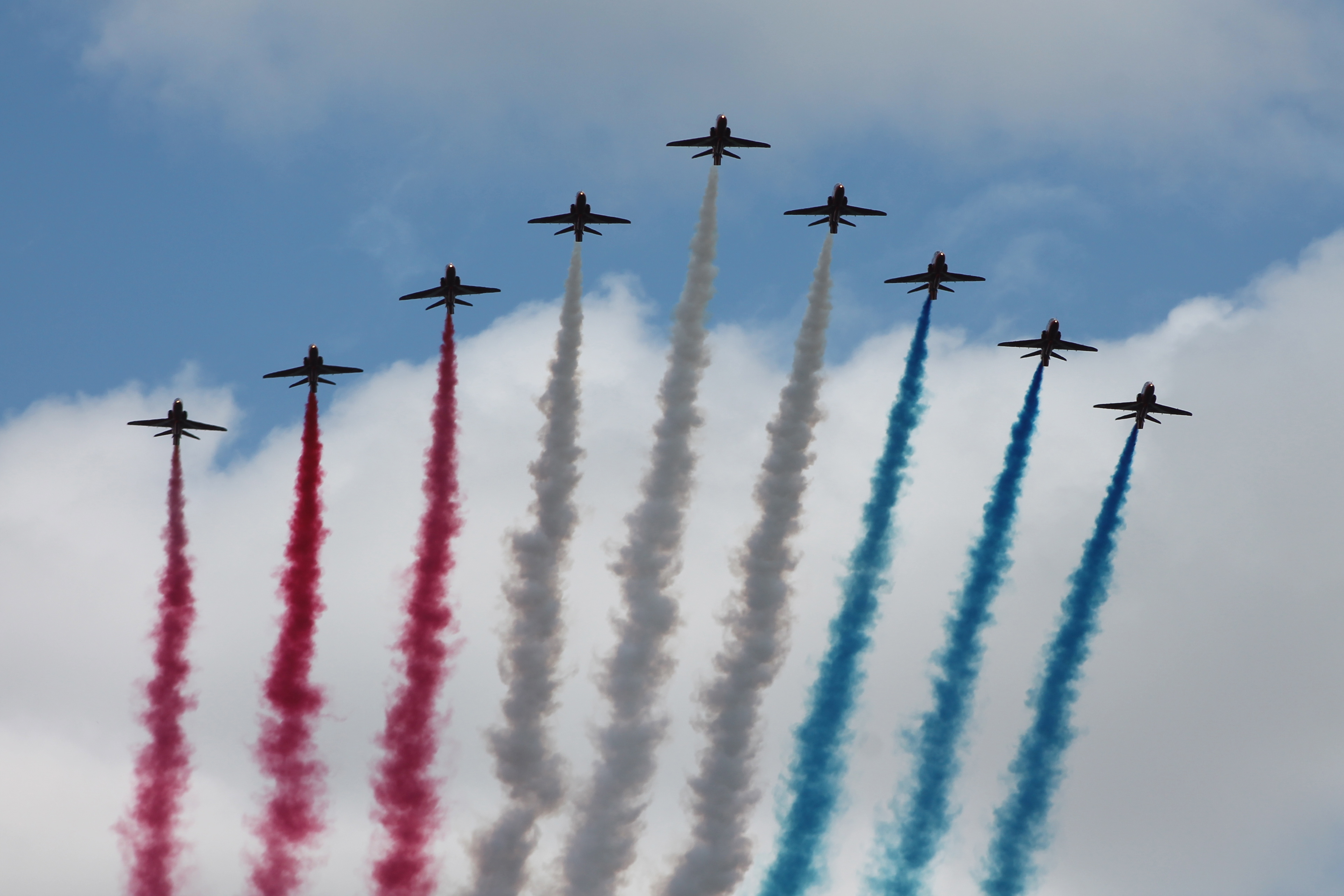 Red Arrows, royal fly past over Buckingham Palace, June 2013